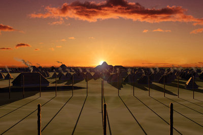 Artists conception of the winter solstice sunrise over Fox Mound as seen from the Woodhenge timber circle circa 1000 CE at the Mississippian culture Cahokia Mounds site near Collinsville, Illinois. All rights held by the artist, Herb Roe © 2017. #cahokia #woodhenge #timbercircle #mississippianculture